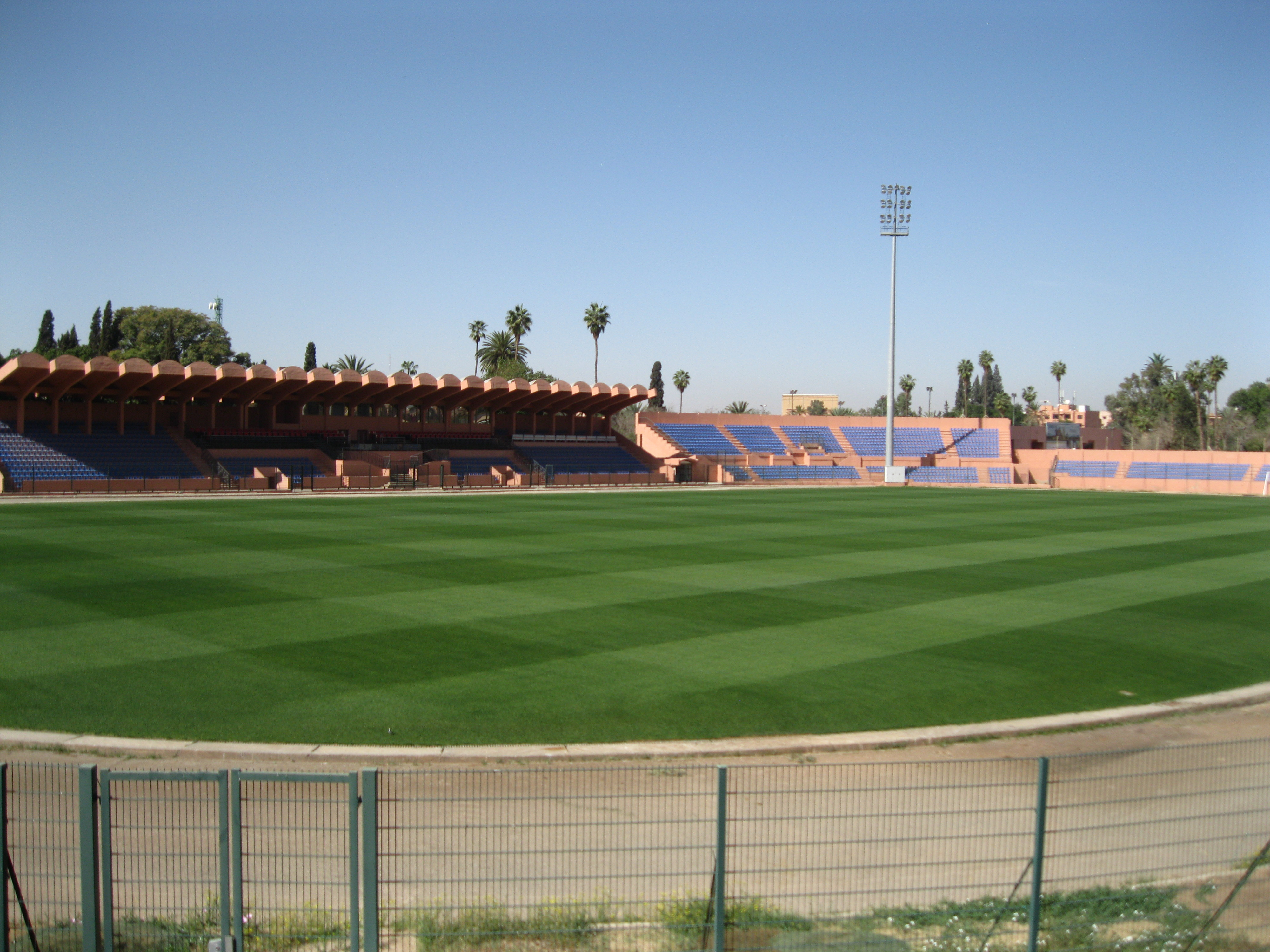 Part of El Harti Stadium, Marrakech, including the Main (West) Stand.